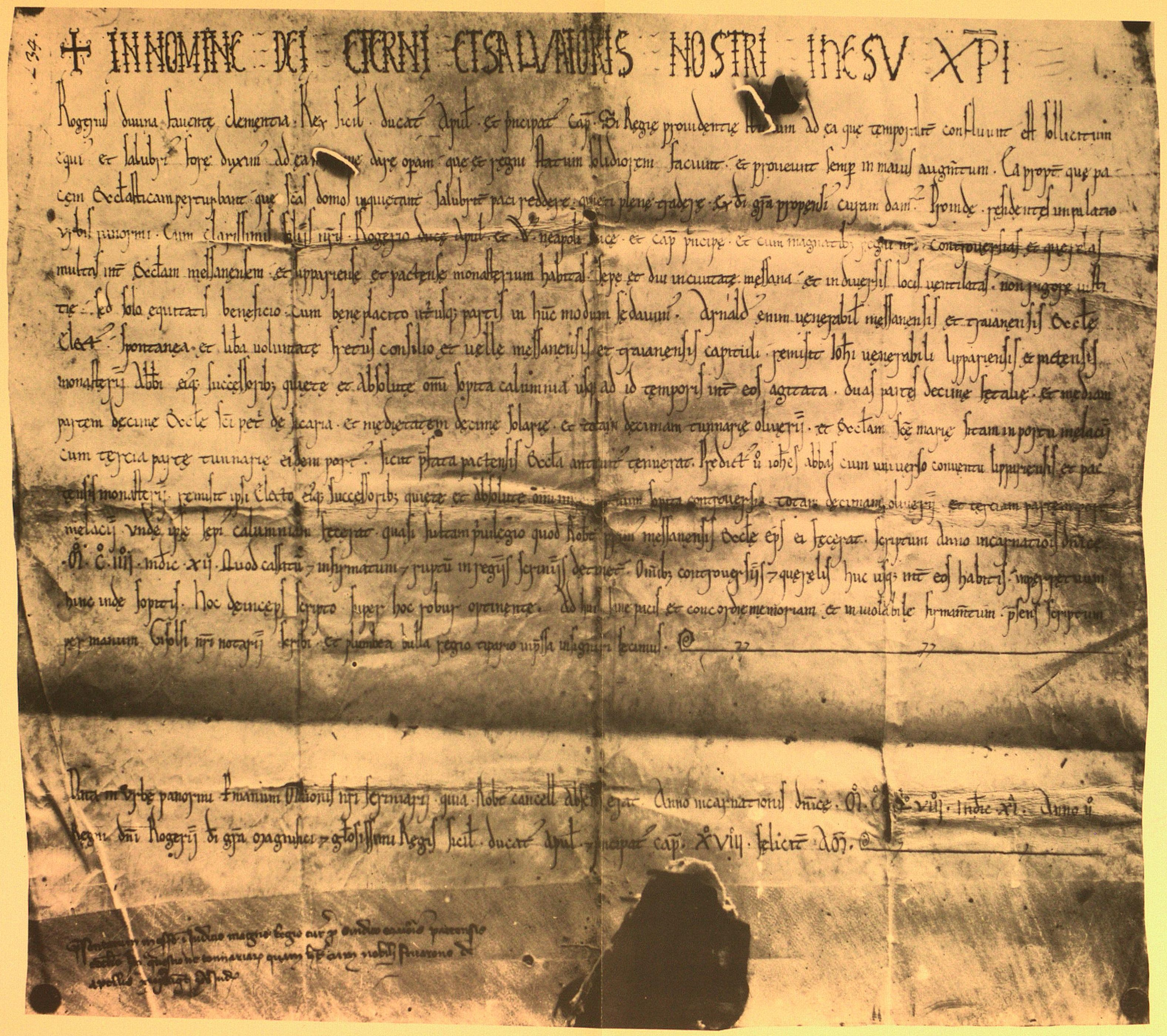 A charter of King Roger II. Patti, Archivio capitolare, Fondazione I, fol. 171.